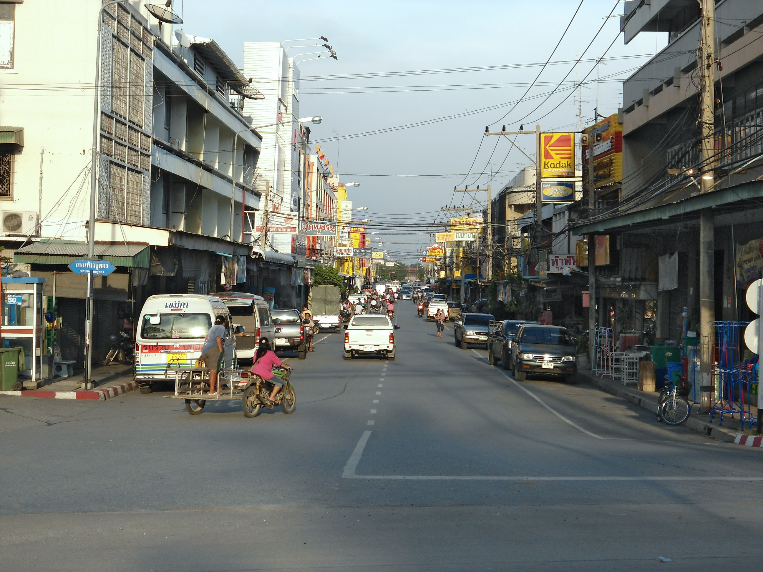 Downtown U Thong, Suphanburi province, Thailand